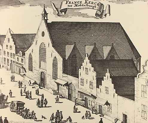 Waalse Kerk (MIddelburg)